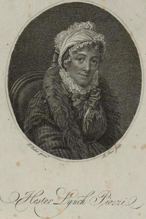 A portrait from the Welsh Portrait Collection at the National Library of Wales. Depicted person: Hester Thrale – Welsh author and salon-holder